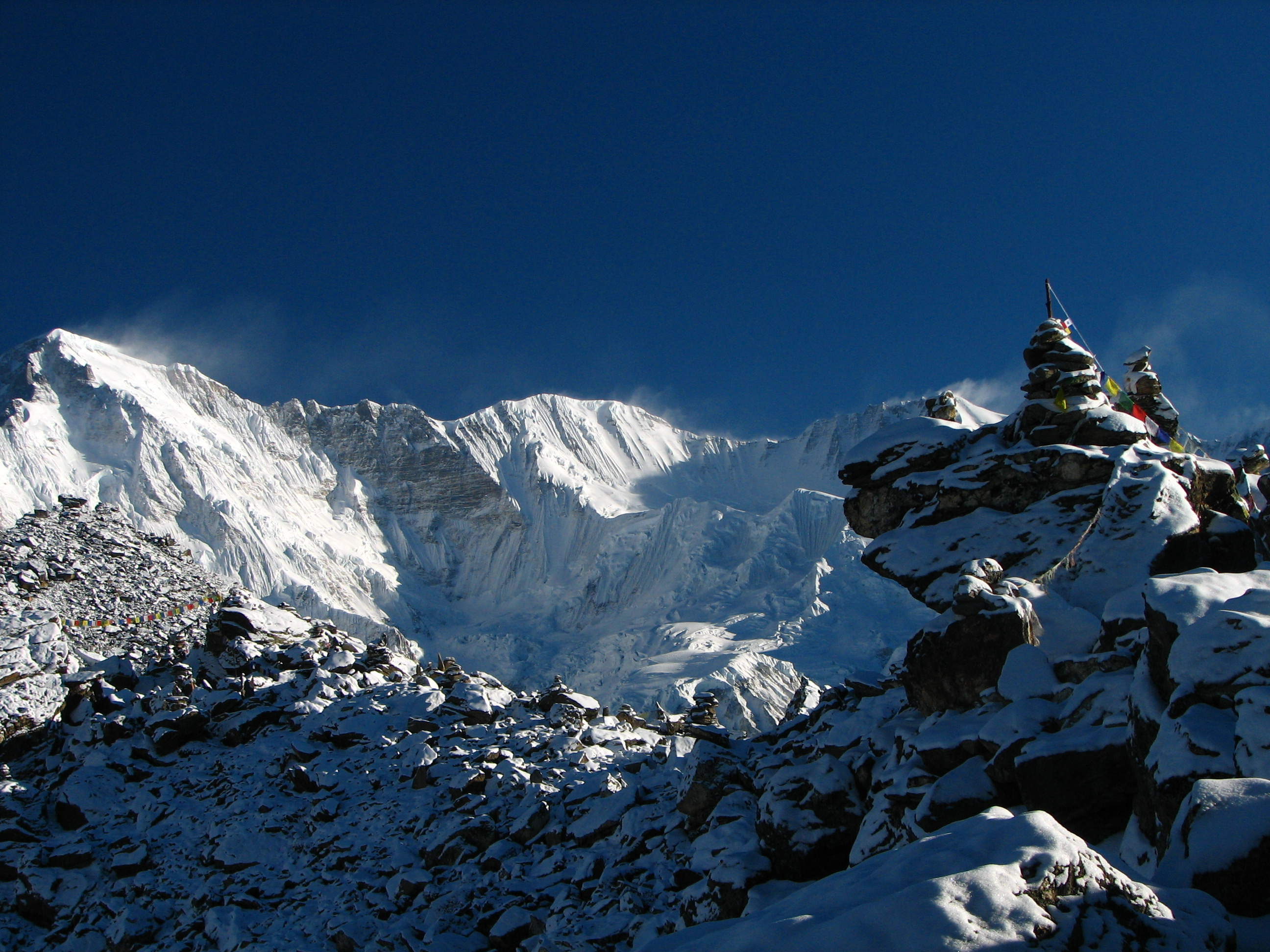 The mighty Cho Oyu, the 3rd 8000m peak we saw on the trip, in brilliant, sharp white in the morning sun from the top of Gokyo Ri. Cho Oyu is 8,201 metres (26,906 feet) which ranks it 6th highest in the world. Its name means "Turquoise Goddess" in Tibetan. Cho Oyu is a beautiful mountain. I could watch it all day. The main climbing route is from the opposite Tibetan side as it is pretty steep and dramatic from this one.